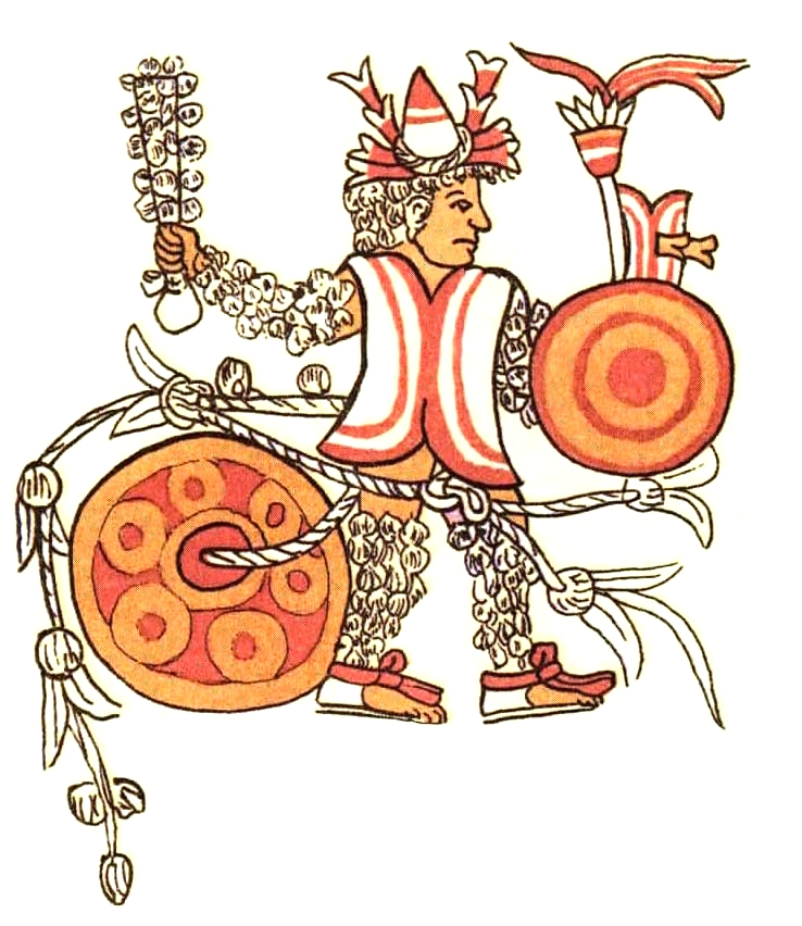 Victim of the ritual sacrificial combat named sacrificio gladiatorio in spanish and tlahuahuanaliztli o tlauauaniliztli in nahuatl, as portrayed in the folio 30r of the Codex Magliabechiano.